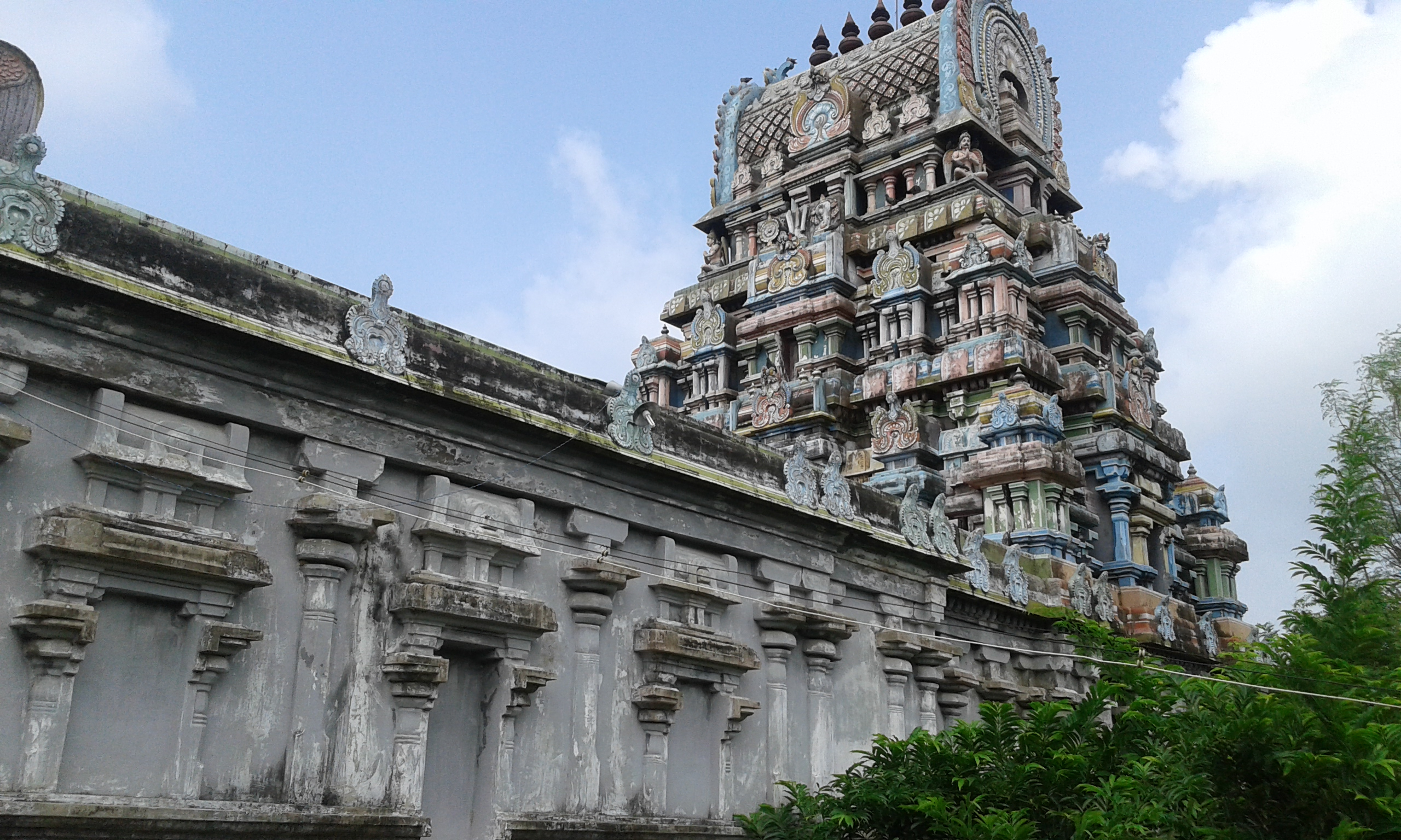 Thiruvanpurushothamam